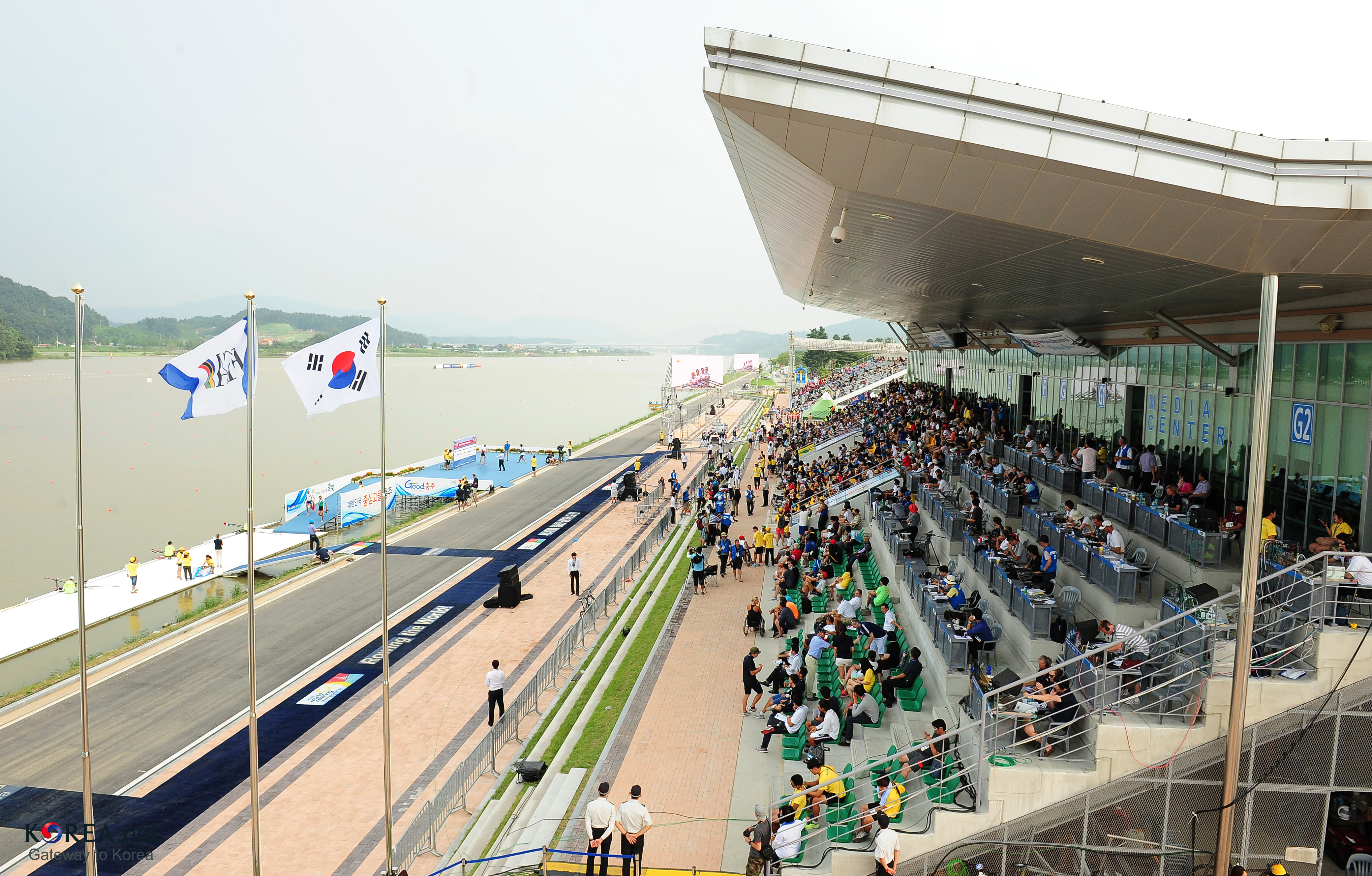 2013 Chungju World Rowing Championships